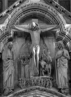 Sculpture from the screenfront of Nidarosdomen, Trondheim, Norway. Lower row, middle. The crucifixion